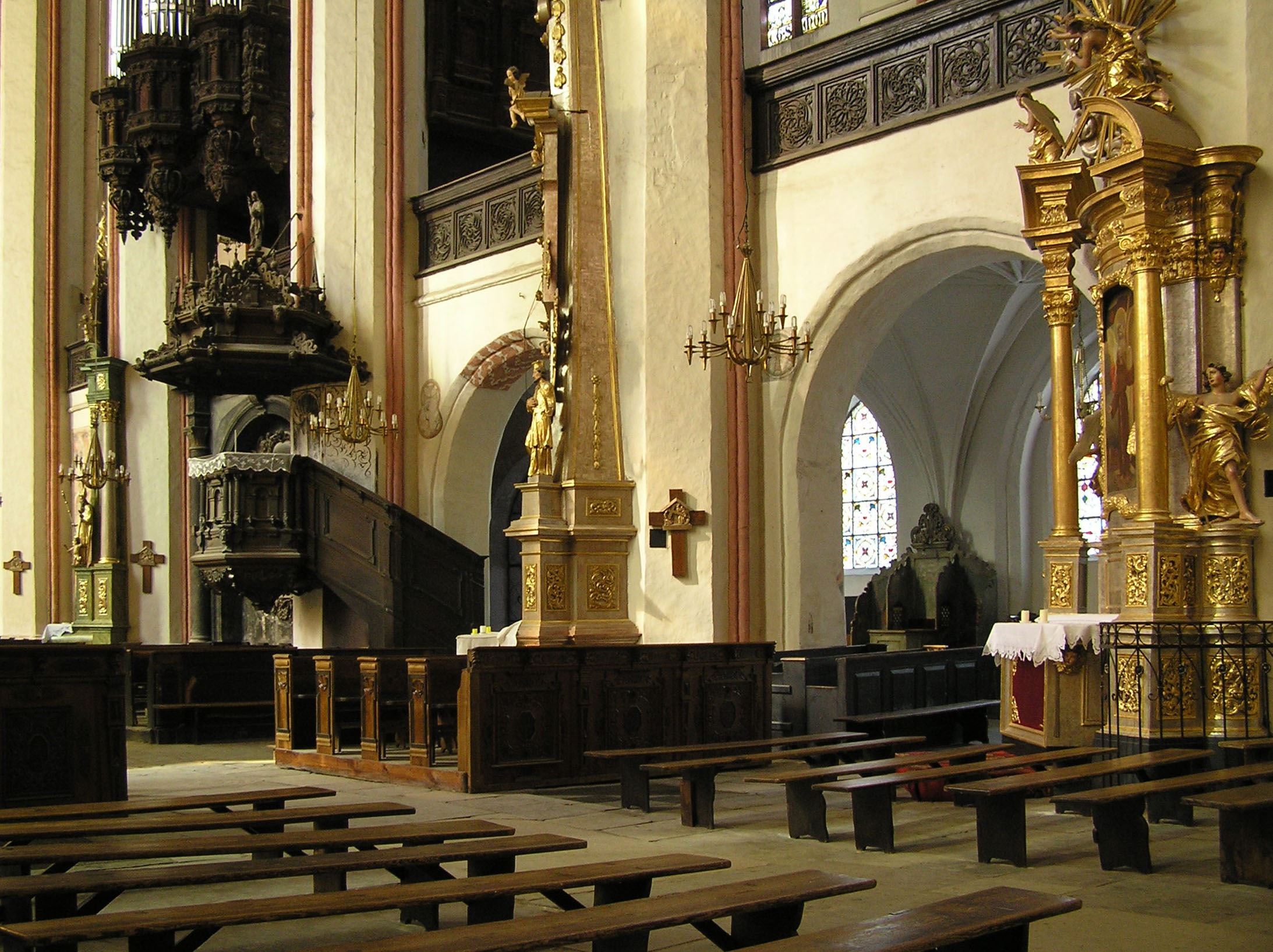 Toruń, church of Virgin Mary, northern part of the nave.